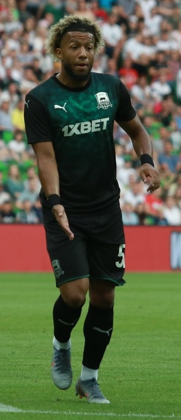 Tonny Vilhena with FC Krasnodar in a game against PFC Sochi.